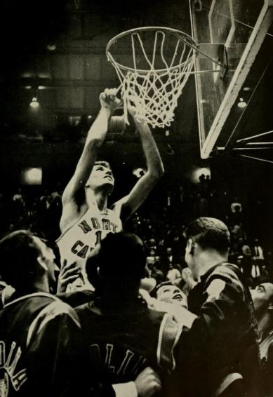 The University of North Carolina's Lennie Rosenbluth cuts down the nets after winning the 1957 NCAA title over Kansas